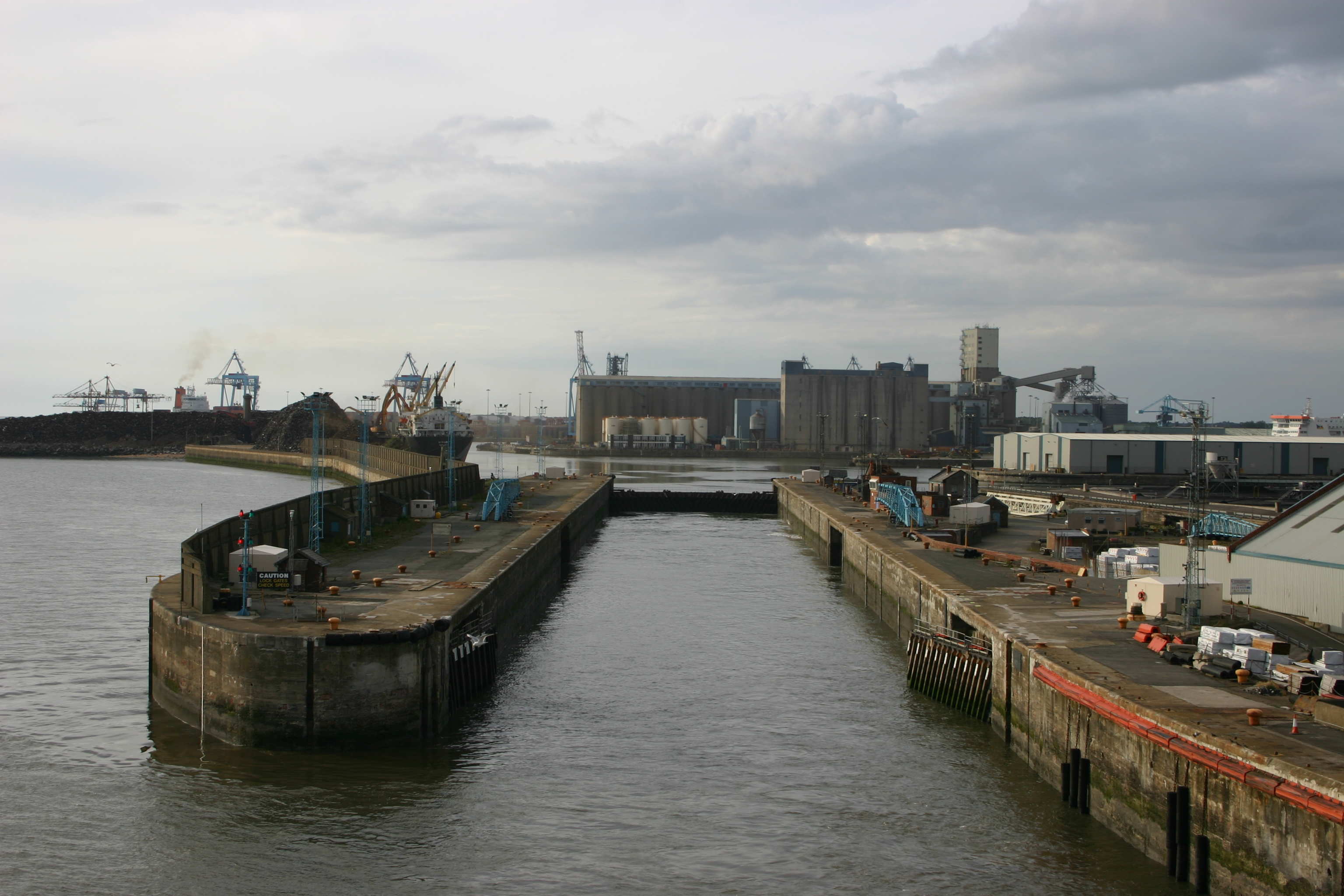 The 1,070 ft long (326 m) and 130 ft wide (39.5 m) Gladstone Lock.